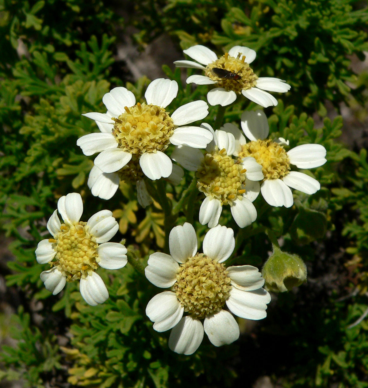 Bahia ambrosioides at the University of California Botanical Garden, Berkeley, California